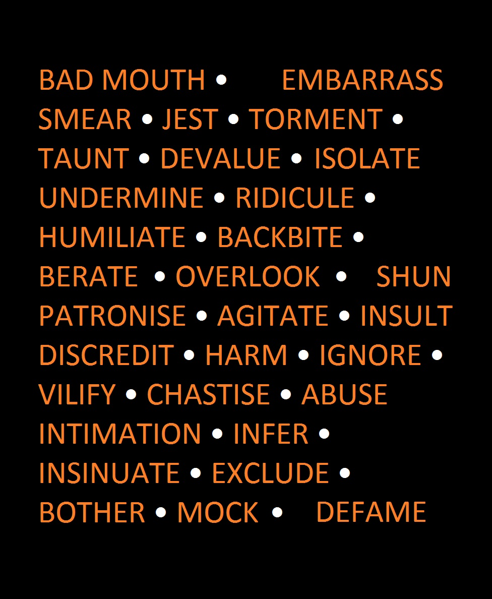 bullying synonyms poster